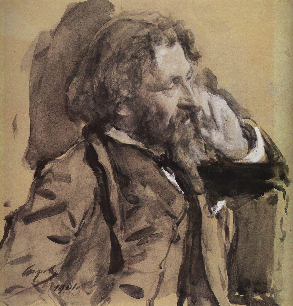 Portrait of the Artist Ilya Repin. 1901. Watercolor, whitewash on paper. The Tretyakov Gallery, Moscow, Russia.